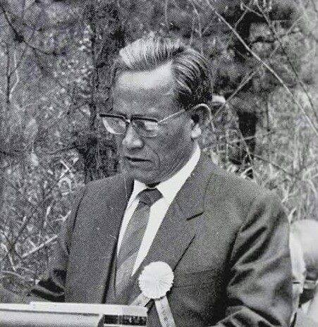 Dr. Yun-Sun Park speaking in the Seminary